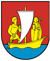 Coat of arms of Tuggen, Canton Schwyz, Switzerland